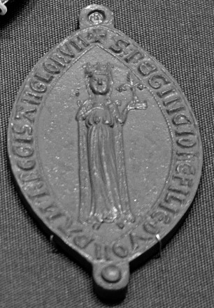 Medieval seal in the British Museum. Tag on exhibit reads: "Double seal of Joanna Plantagenet" and "About 1196-99 France Silver" See BM database entry for more details.